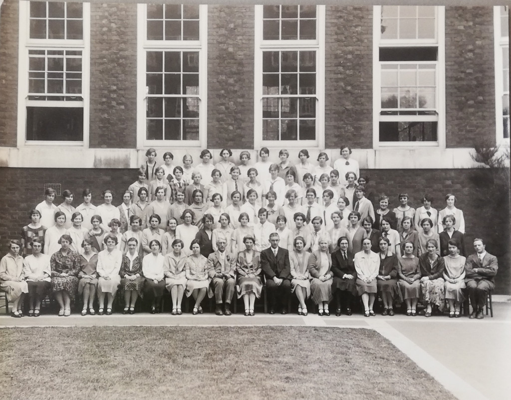 Helen Reynard and the the-whole-school